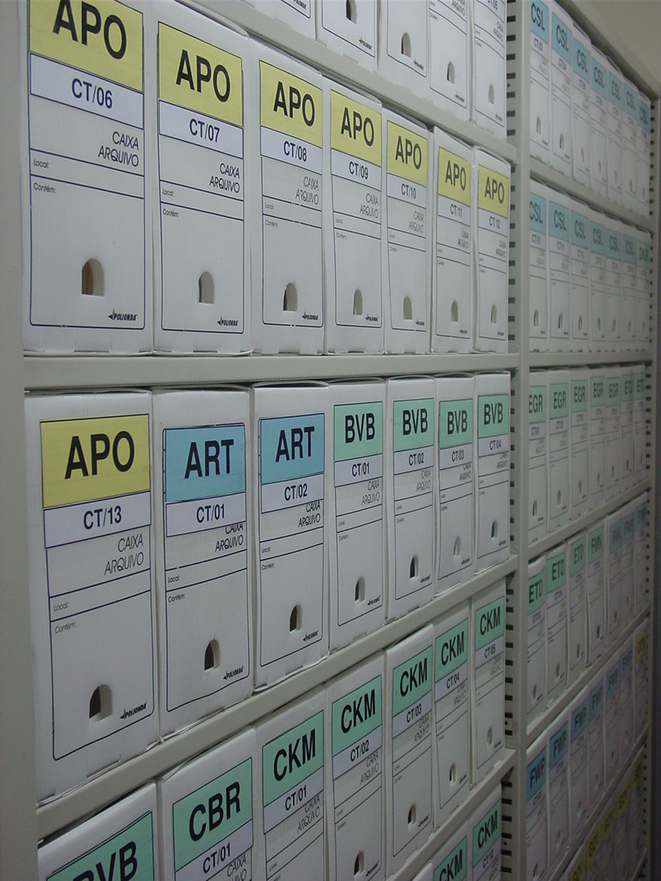 Visão parcial do patrimônio histórico do PT, organizado e disponível para consulta.